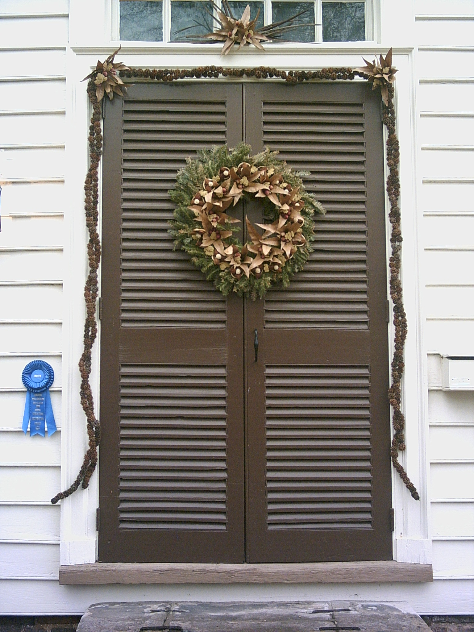 Colonial Williamsburg Christmas wreath